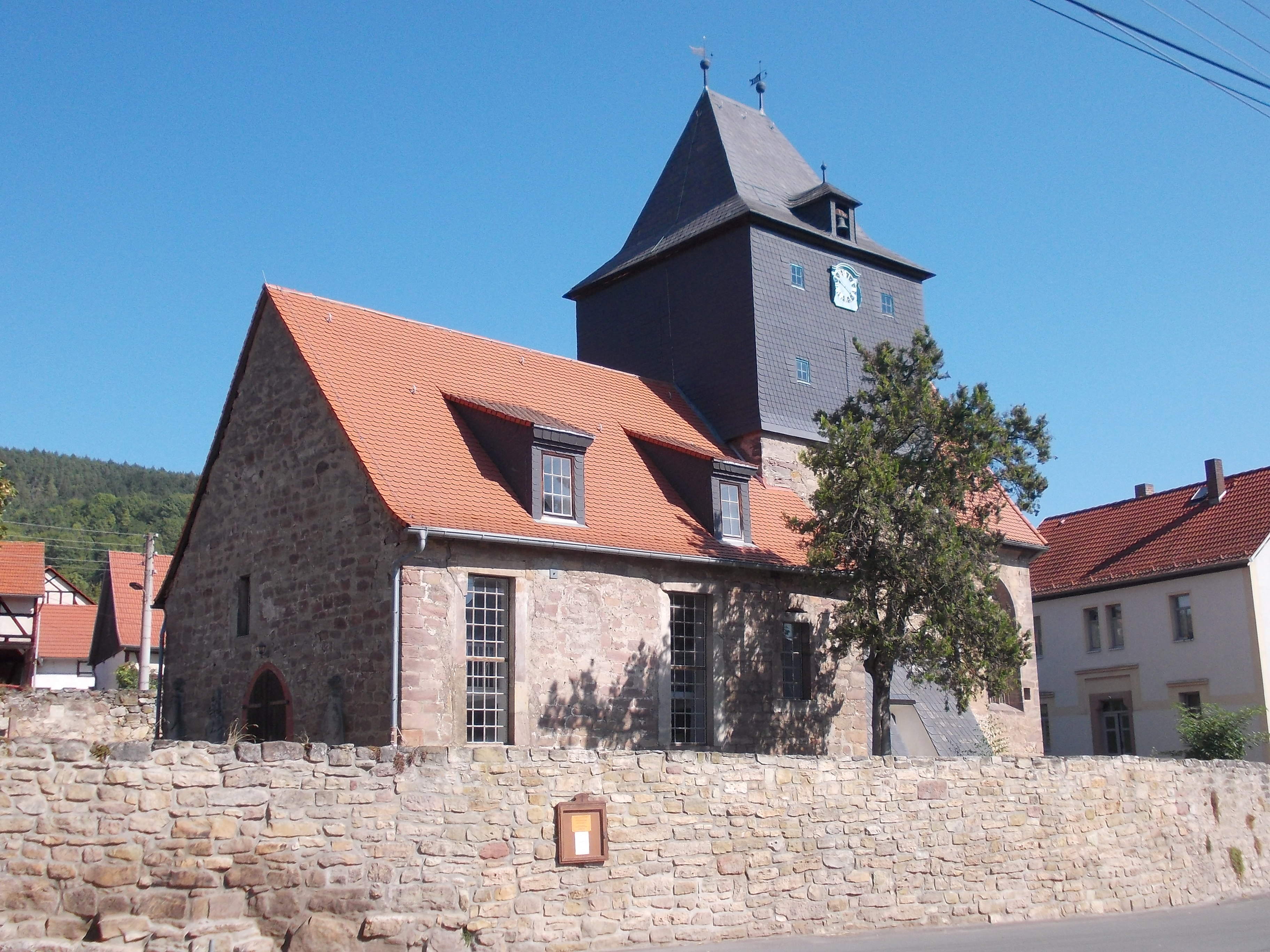 St. Sebastian's Church in Dienstädt (Eichenberg, district: Saale-Holzland-Kreis, Thuringia)